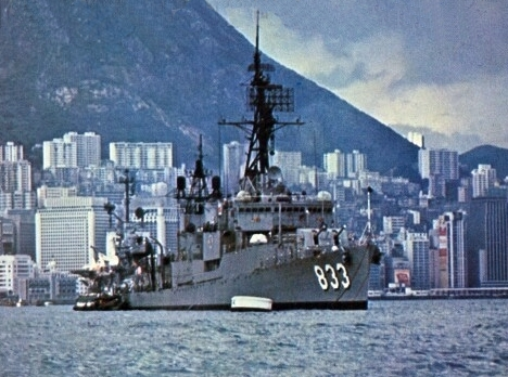 The U.S. Navy Gearing-class destroyer USS Herbert J. Thomas (DD-833) at Hong Kong, in 1969.